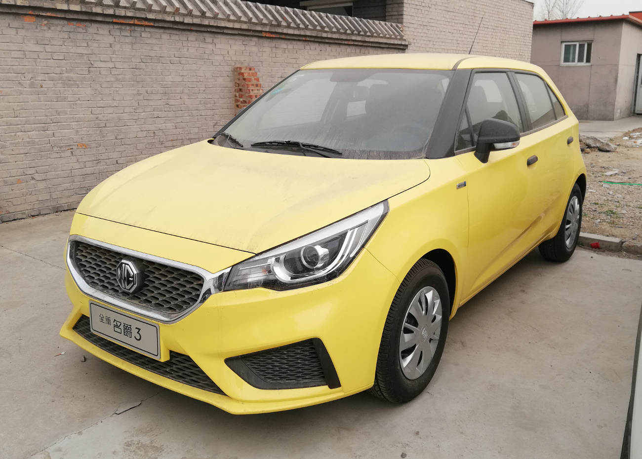 MG 3 II facelift II photographed in Beijing, China.